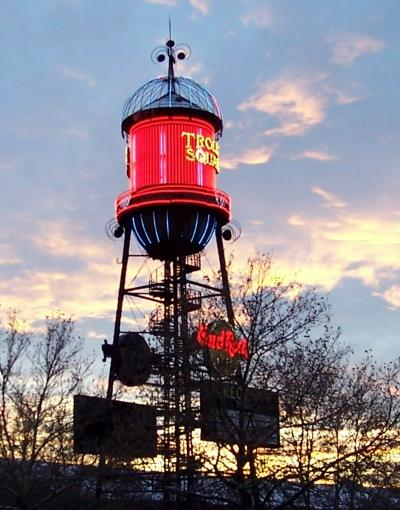 SLC Trolley Square weather beacon.